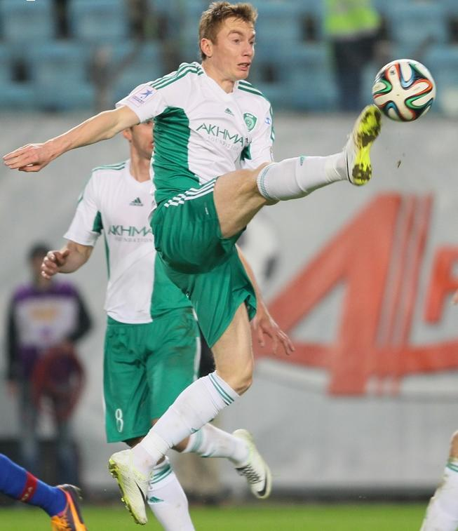 Andrei Semyonov playing for Terek Grozny.